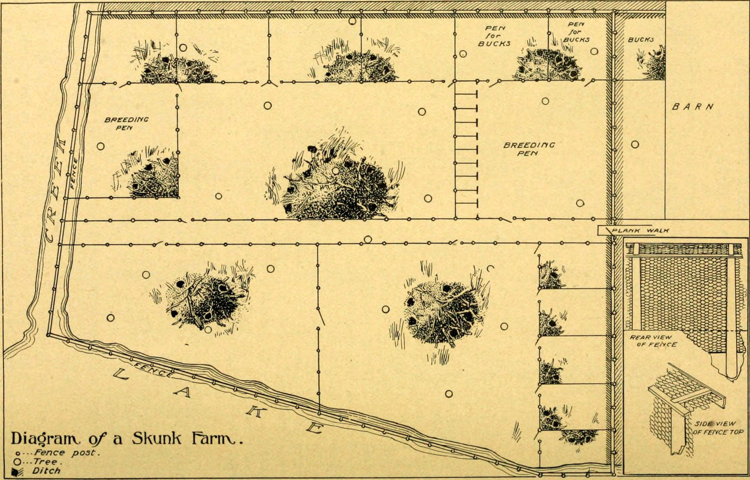 Title: Andersch bros. hunters and trappers guide illustrating the fur bearing animals of North America the skins of which have a market value Year: 1906 (1900s) Authors: [from old catalog]; [from old catalog] Subjects: Hunting; [from old catalog]; Game laws Publisher: [Minneapolis, Minn. , Press of Kimball-Storer co. ] Text Appearing Before Image: ' Text Appearing After Image: '